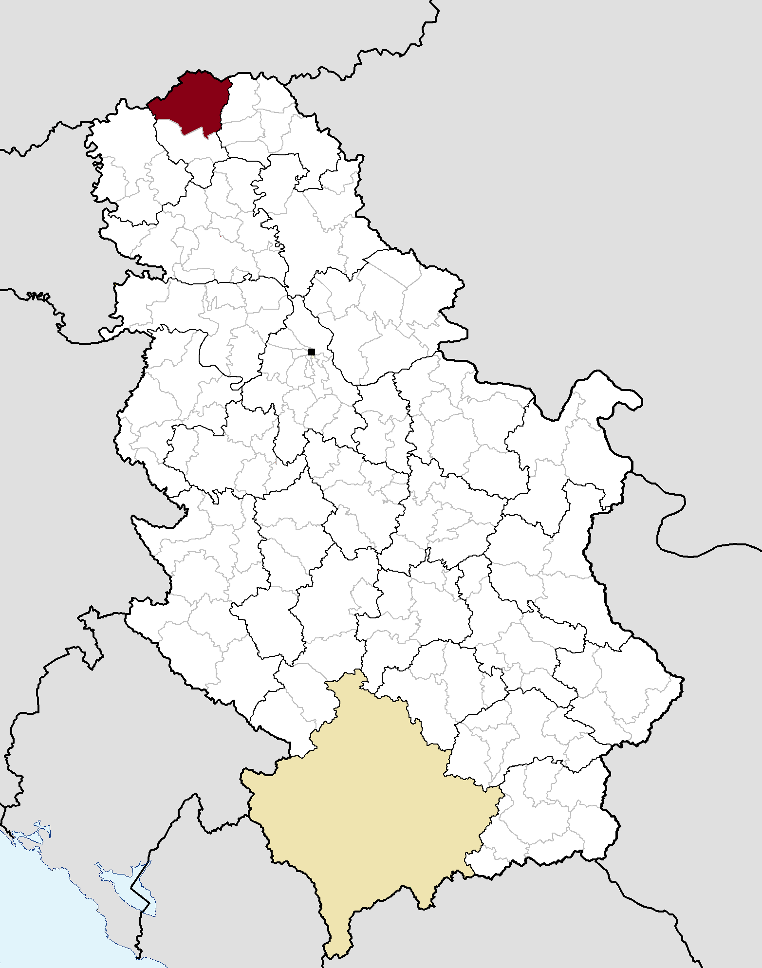 Municipal location in Serbia